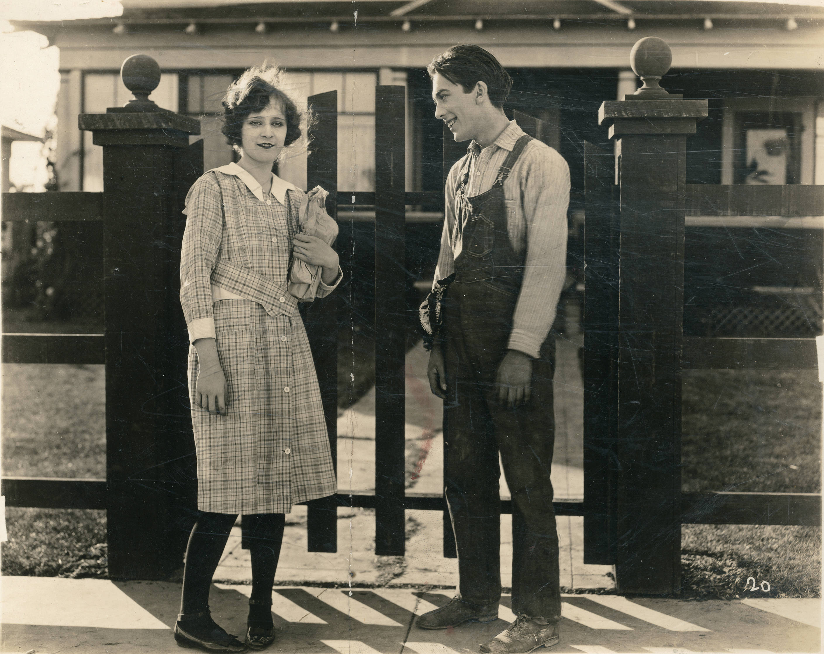 A scene from the American comedy film In Wrong (1919) which played at the Strand Theater, Seattle. Includes Jack Pickford. Dated Oct. 19, 1919. Subjects: actors, motion pictures